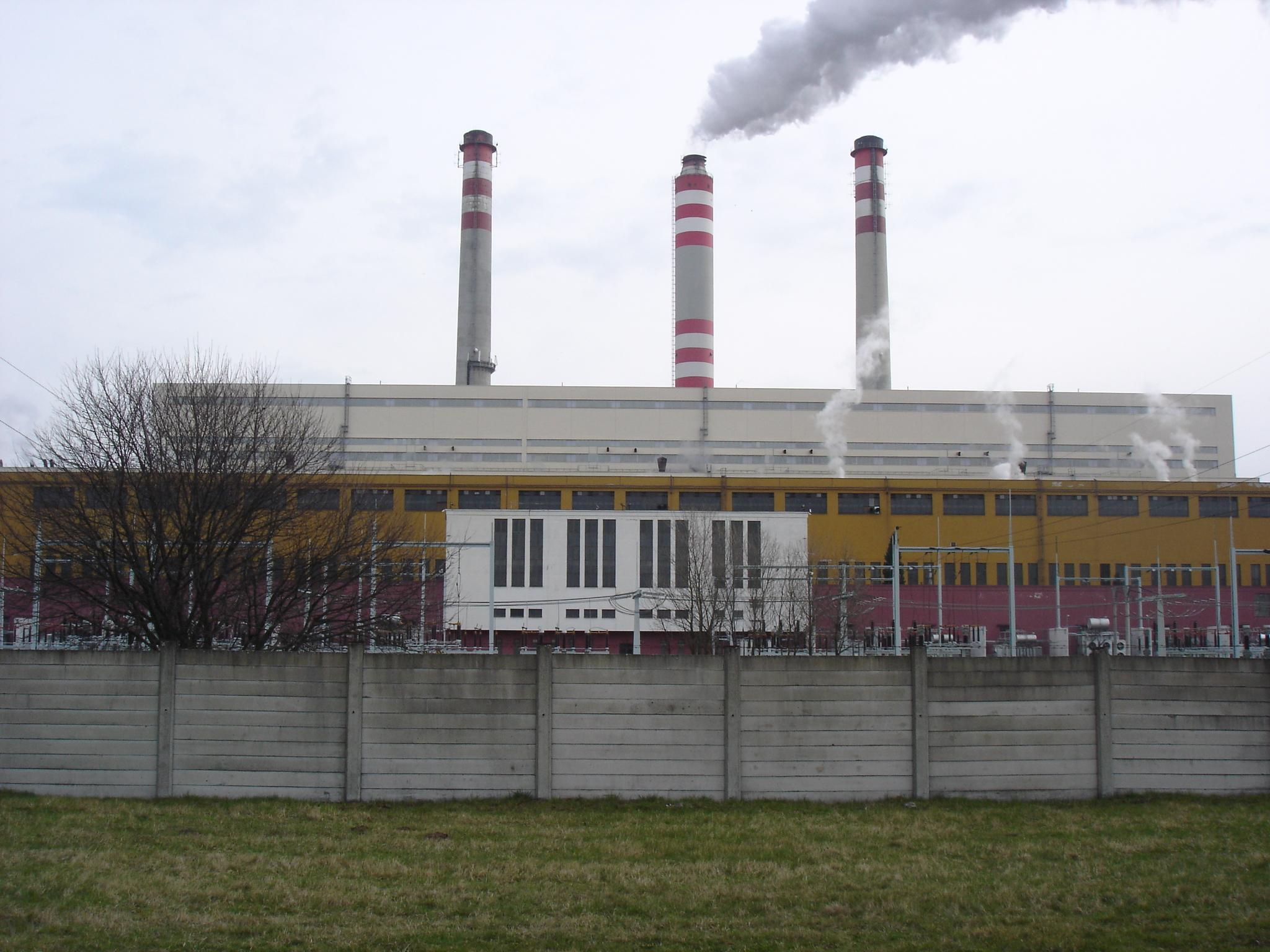 Opatovice nad Labem power plant, Czech republic